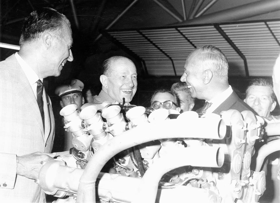 Adolfo Orsi (center) and Maserati people, possily Bindo Maserati (in front right, smiling)